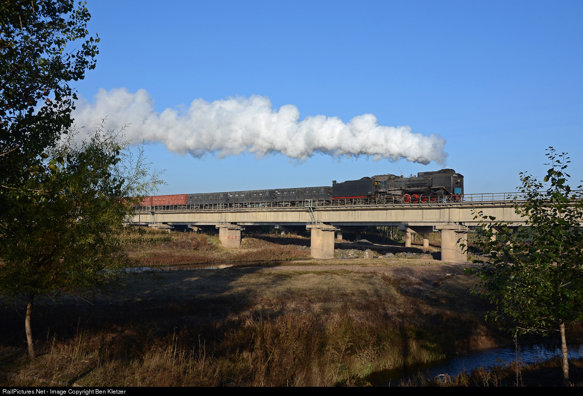 The LAST steam powered standard gauge mixed train to run in the world! JS8250 storms across the half mile long river bridge at Yuanbaoshan leading 19 empty coal cars, and 6 passenger cars. This train was bound for Fengshuiguo, where the coal cars would be loaded and the passenger's would disembark to work on the farms and in the coal mine. On this crisp autumn morning, this train was the LAST steam hauled standard gauge mixed train left in the World, running for daily revenue service. But within hours, that would all change. As this train headed back in the afternoon after this photograph, a coal truck pulled in front of the locomotive derailing the 2-8-2 and destroying the locomotive's tender. While the locomotive was eventually repaired, the railroad abandoned passenger service, bringing an end to the last steam mixed train.